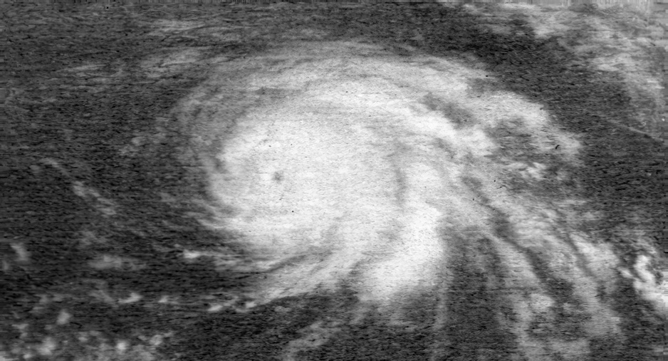 This is a section of an ATS-3 satellite image which shows Hurricane Ginger at 1221z on September 13, 1971, which originated from the National Hurricane Center archive in Coral Gables, FL